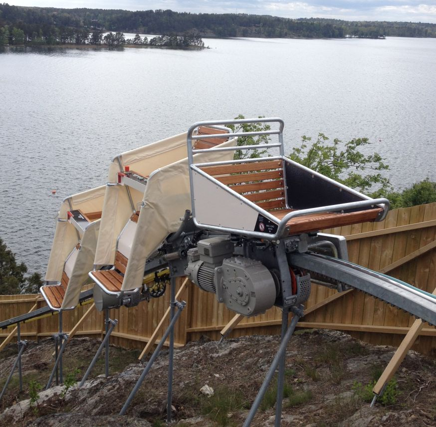 Electrical Monorack